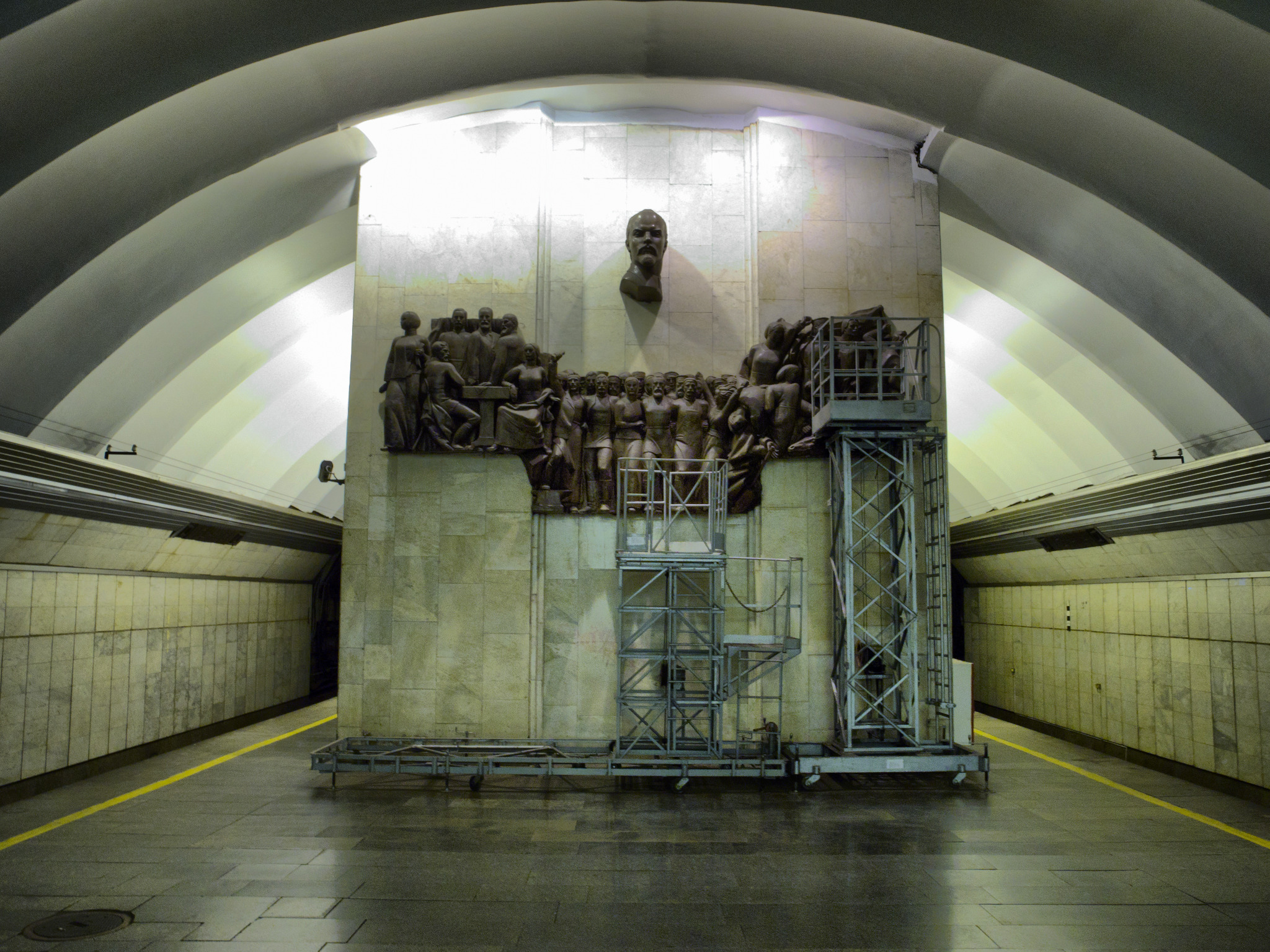 Obukhovo station end wall & high relief. Saint Petersburg subway, 2011